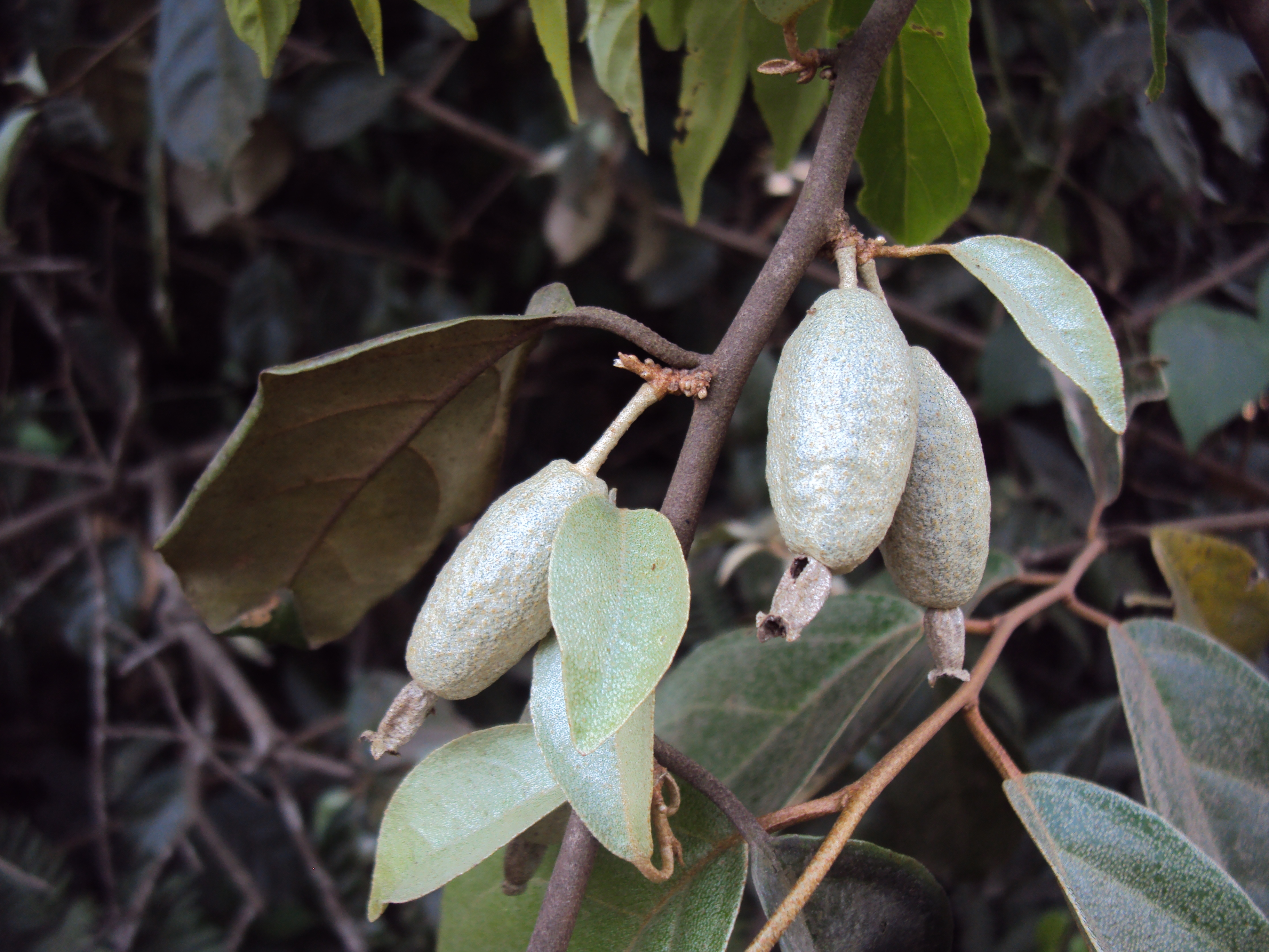 Elaeagnus conferta